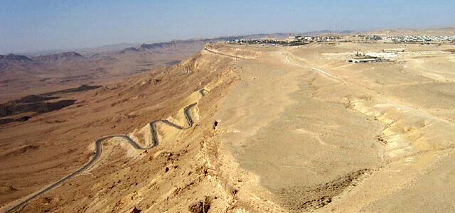 Ramon Crater near Mitzpe Ramon in Israel